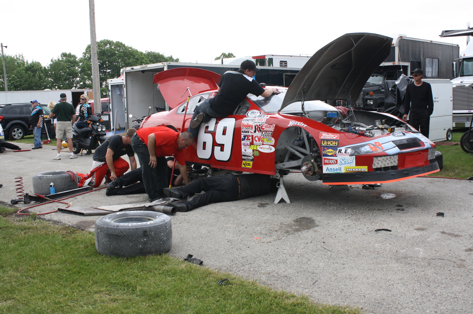 Lots of crew members from different teams working hard to prepare the ARCA Racing Series car of Will Kimmel for the 2013 Scott 160 race at Road America.